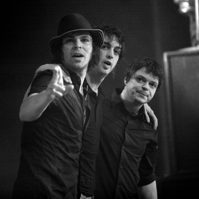 Gaz, Danny and Mick - Supergrass at Roundhouse, Camden (2008)